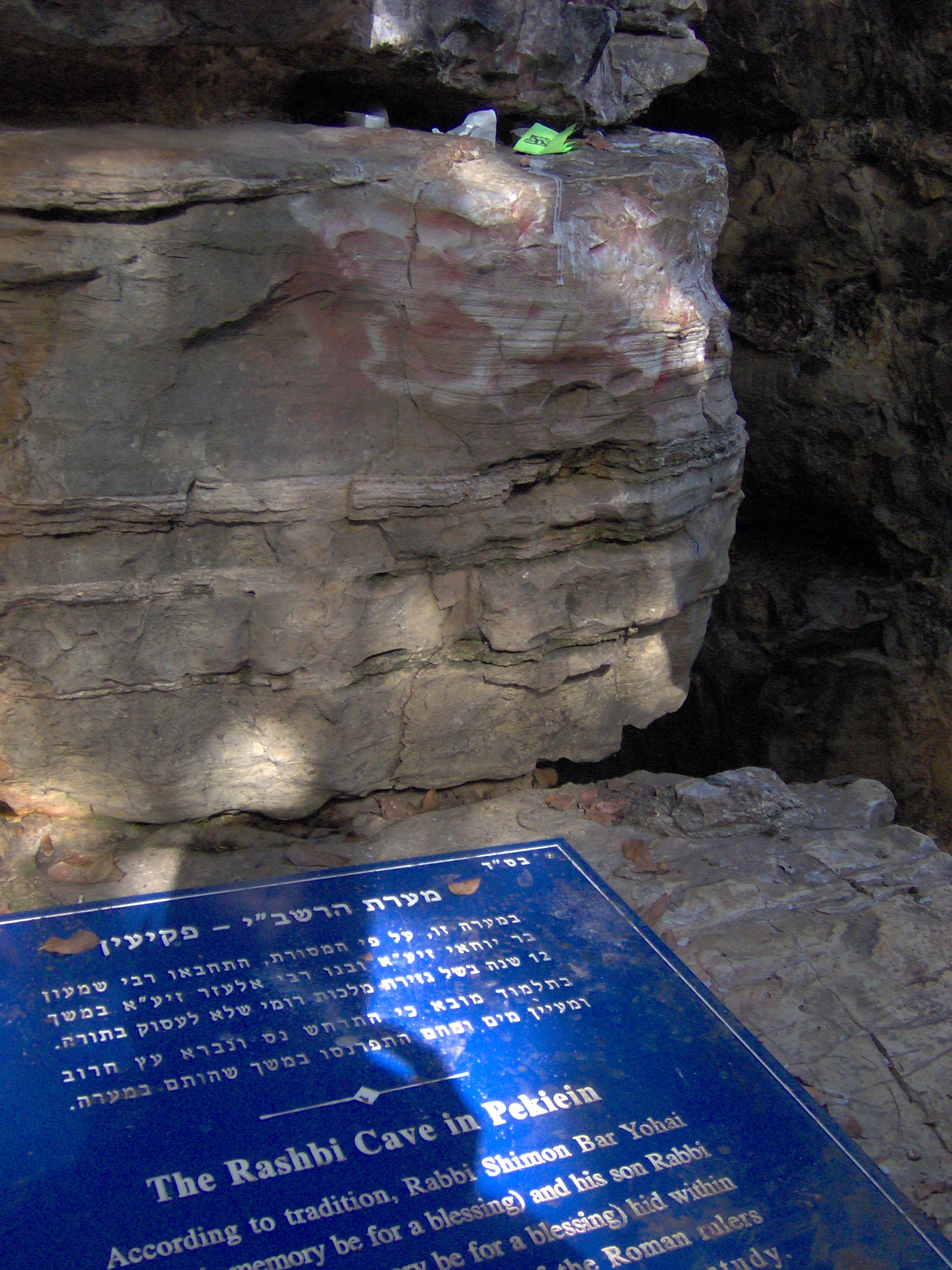 The Rashbi (Rabbi Shimon Bar Yohai) Cave in Pekiein